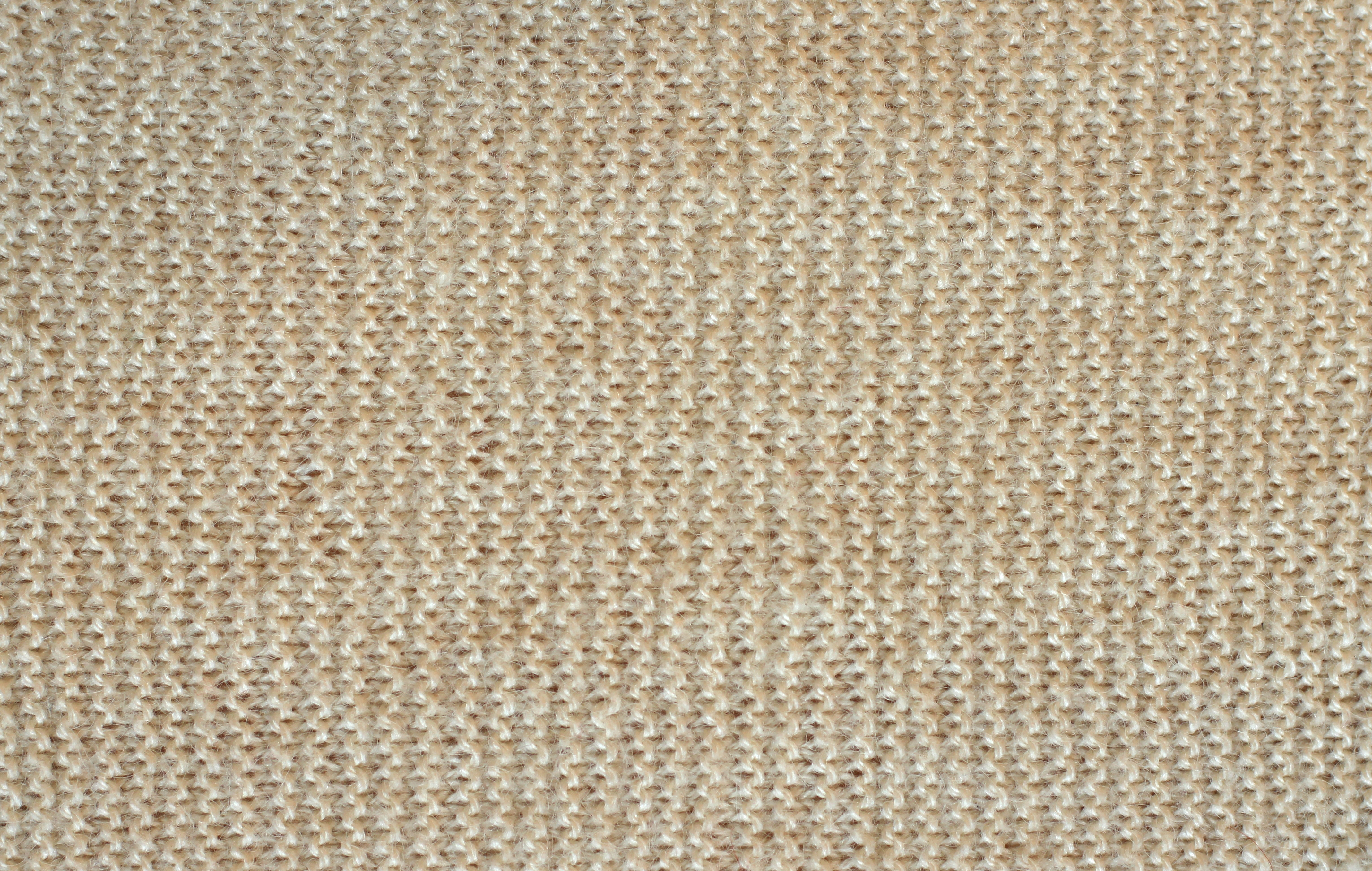 Texture of beige wool.